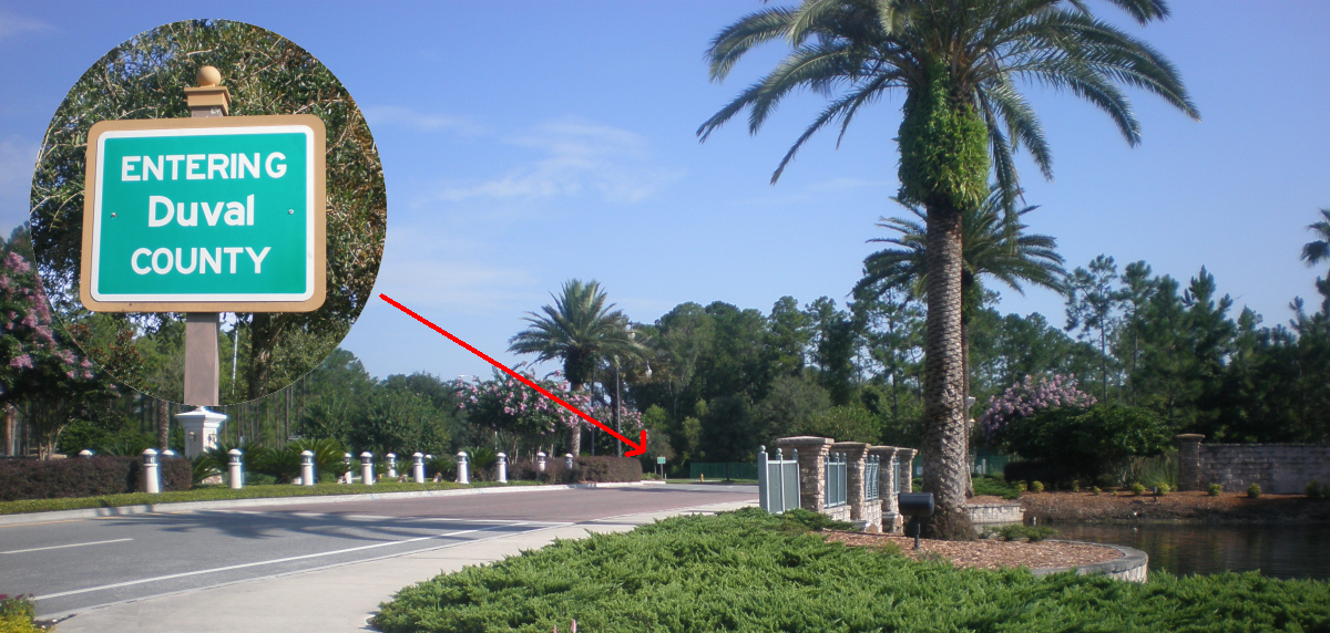 The entrance to Bartram Springs, with the sign showing the Jacksonville/Duval County Line highlighted.